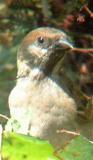 Eurasian Tree Sparrow (Passer montanus) in England